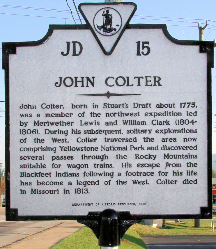 Historical marker commemorating the birthplace of John Colter